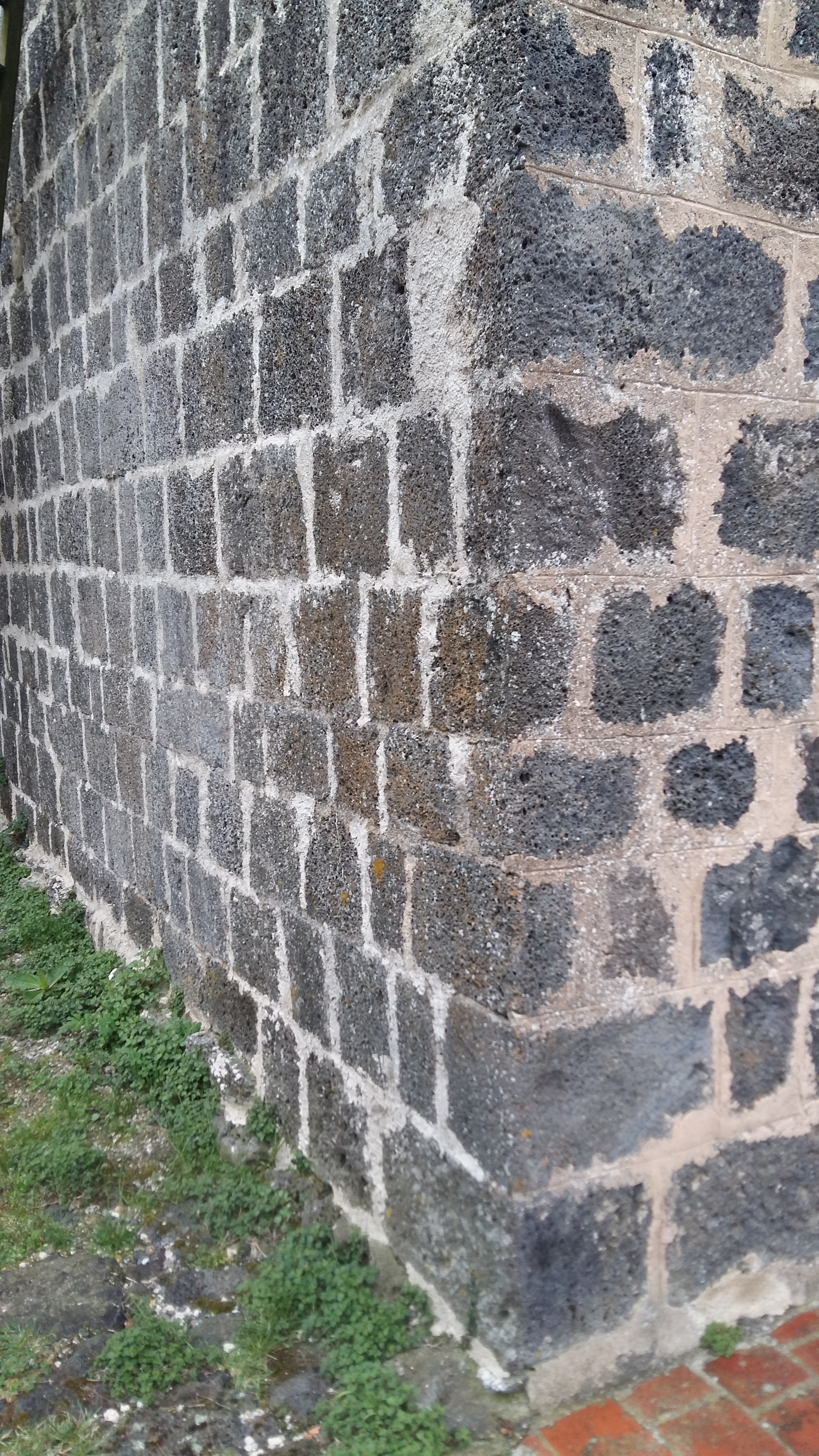 La Trinitat de Batet - Romanesque Chuch